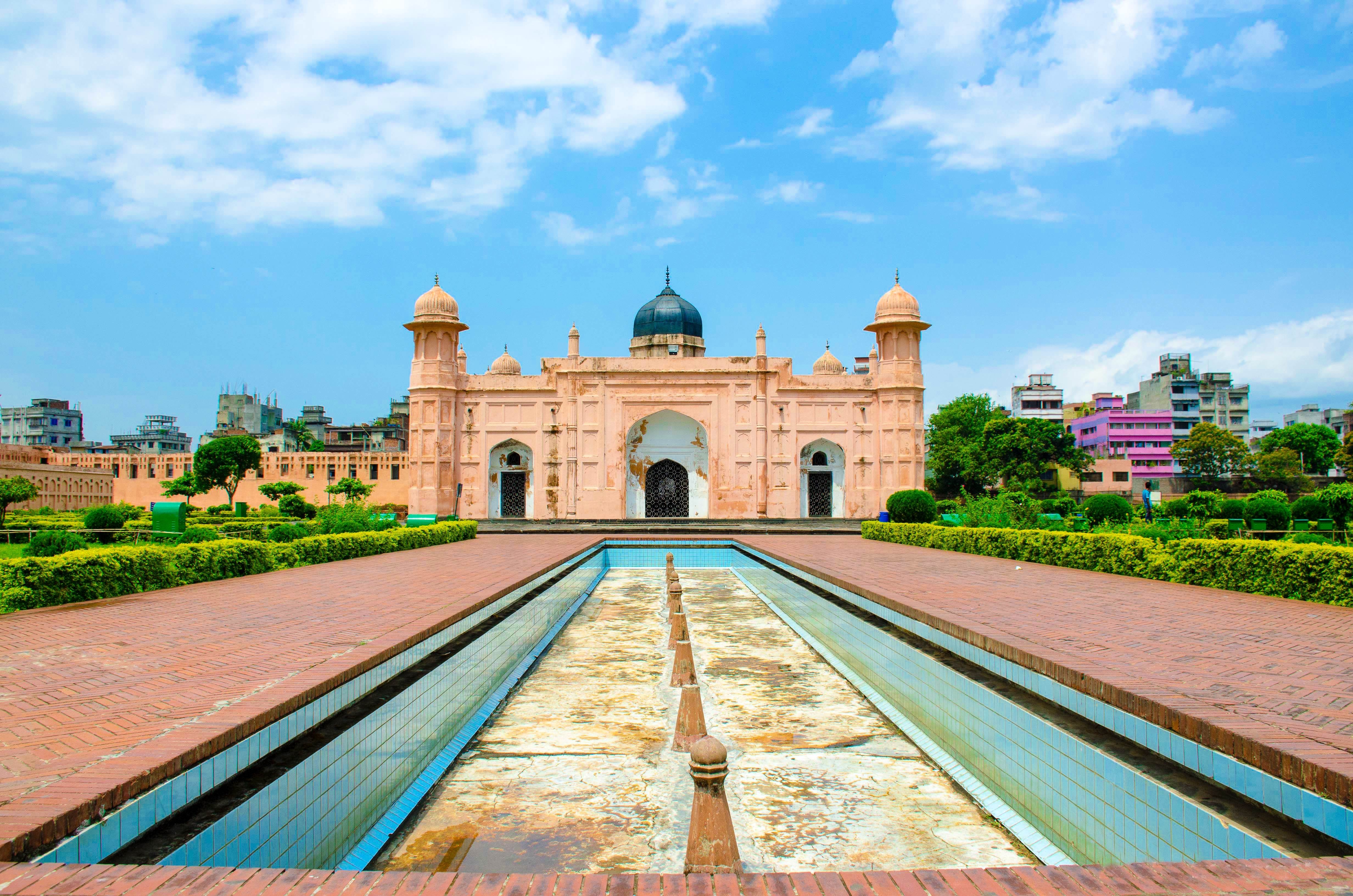 Located in Old Dhaka, the Lalbagh Fort was built in the 17thcentury by the then Viceroy of Bengal, Prince Mohammad Azam, son of Mughal emperor Aurangzeb. A three-domed giant mosque with a water tank in front, a beautifully constructed tomb known as the Tomb of Bibi Pari (daughter of the Prince’s successor, Shaista Khan), and a hammam (Turkish bath) are the main components of the fort, which features a unique architectural style and intricate design. The bathing palace, now a museum, exhibits various artifacts from the Mughal period. Another fascinating feature of the Lalbagh Fort is a maze of hidden passages and tunnels, and billets (military barracks) for soldiers, which, for safety reasons, are not open to the public.